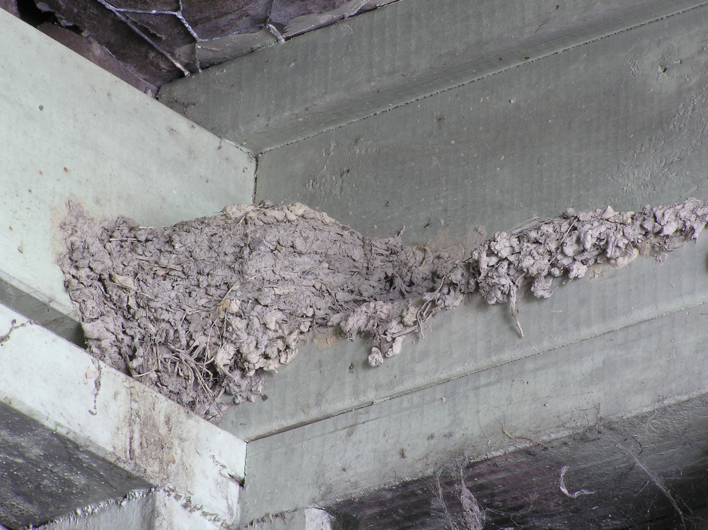 Welcome swallow nest.